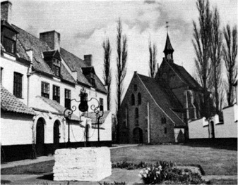 An old photograph of the beguinage at Diksmuide. Thomas Beckett, archbishop of Canterbury, came here on his flight from Henry II in 1170.